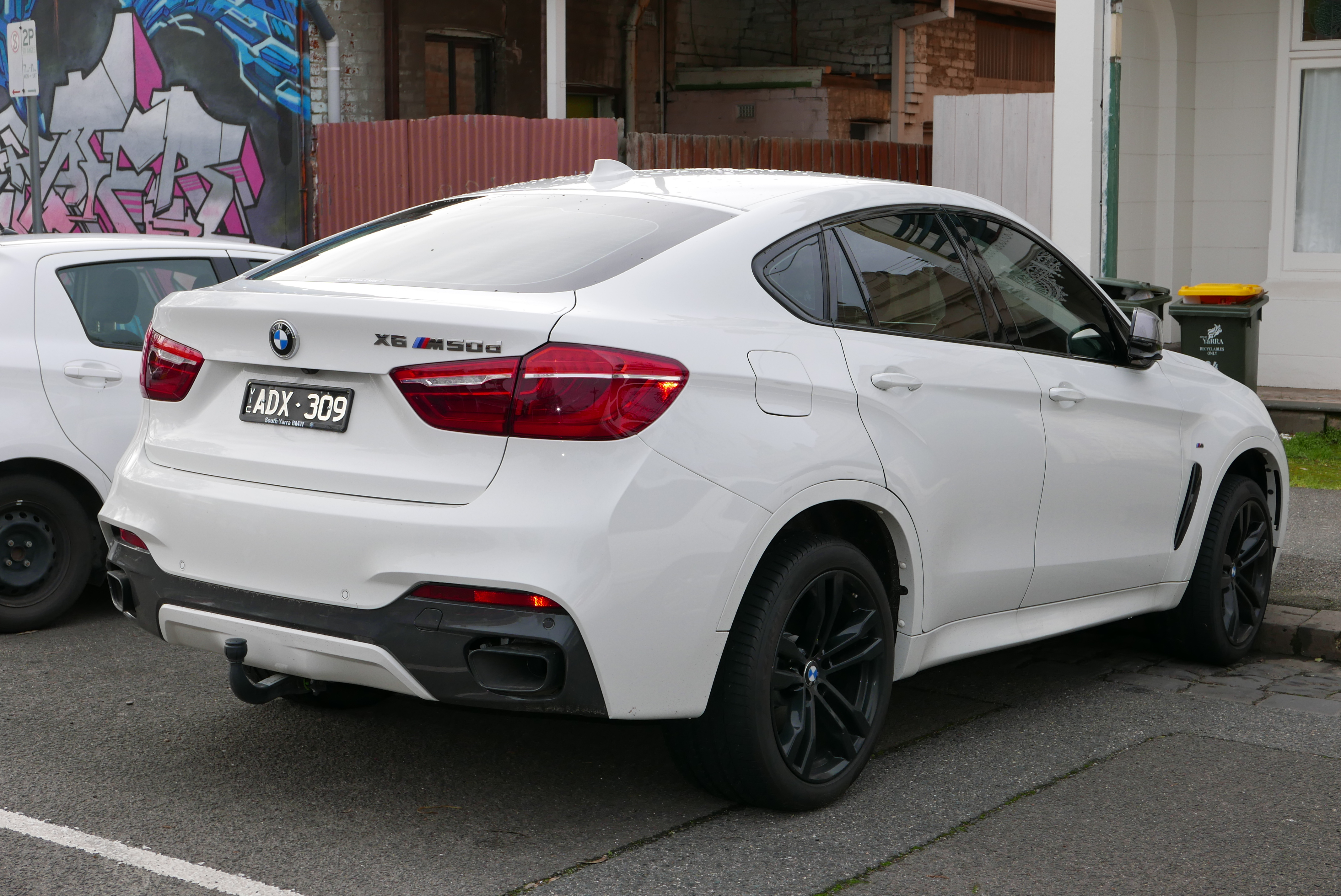 2014 BMW X6 (F16) M50d wagon. Photographed in Carlton North, Victoria, Australia. Vehicle registration enquiry resultsJurisdictionVictoriaRegistrationADX309Chassis codeWBAKV620300G59538Engine code90220857Compliance date2014-11Year of manufacture2014